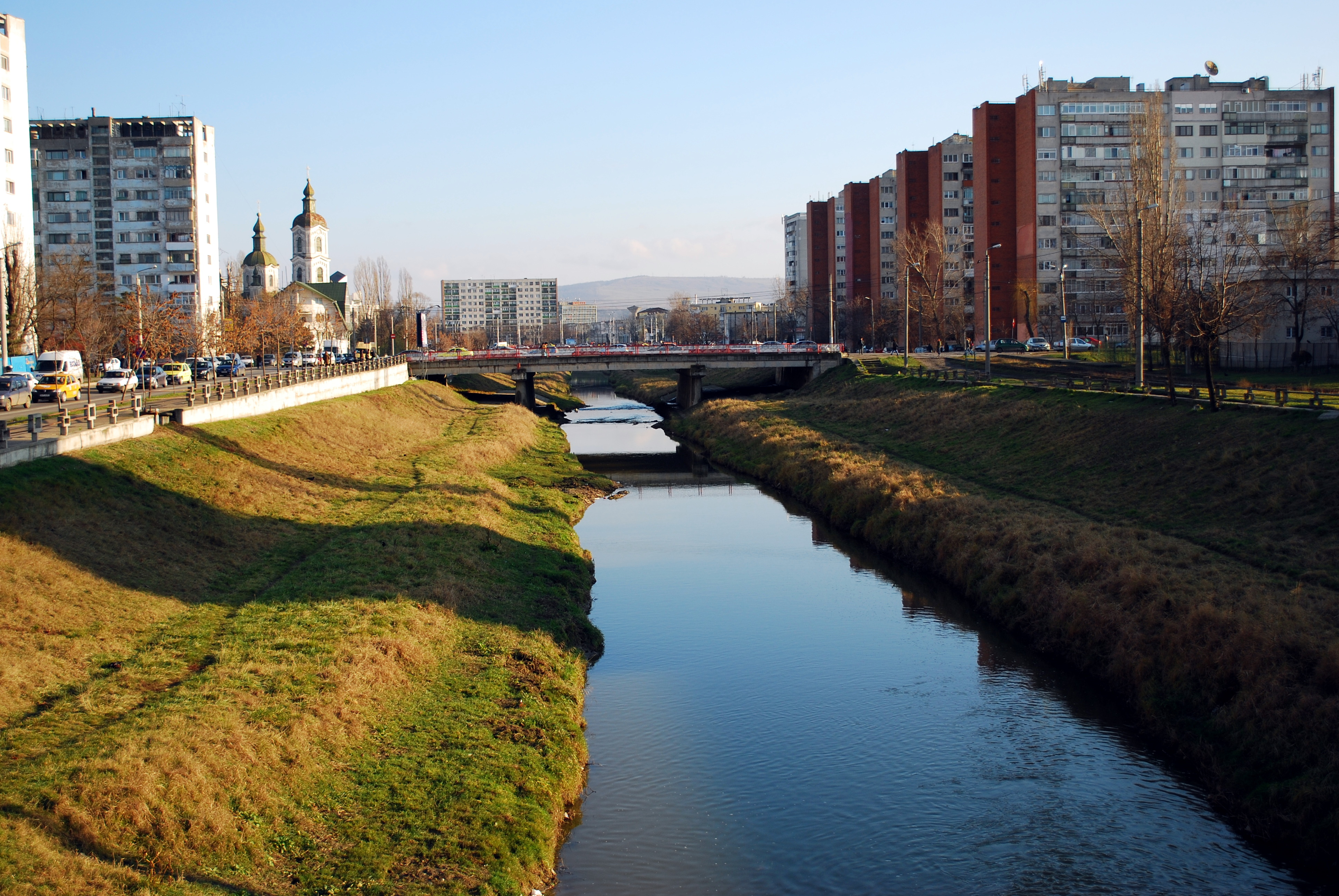 The Bahlui River crossing the city of Iaşi, Romania.